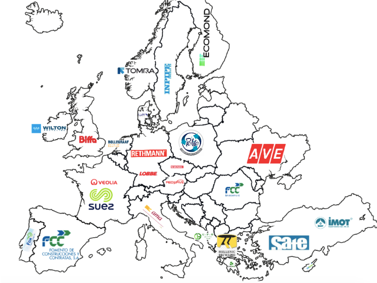 Map that shows all European's leading waste management and recycling companies